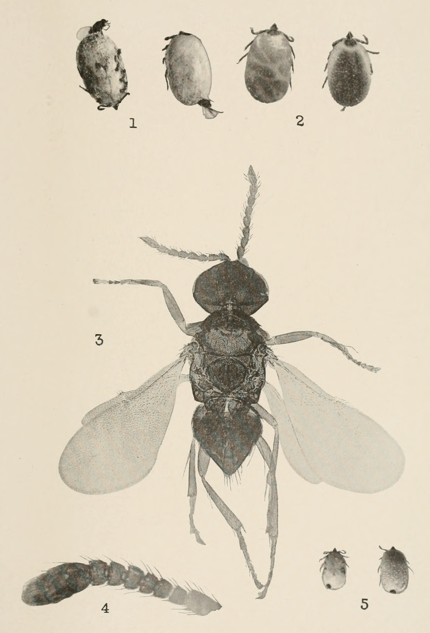 Ixodiphagus hookeri Howard: - Fig. 1, Parasites emerging from nymphs of Rhipicephalus sanguineus Latr.; Fig. 2, Nymphs of R. sanguineus showing characteristic appearance following parasitism; Fig. 3, Ixodiphagus hookeri, male; Fig. 4, antenna of female; Fig. 5, emergence orifices in nymphal ticks.